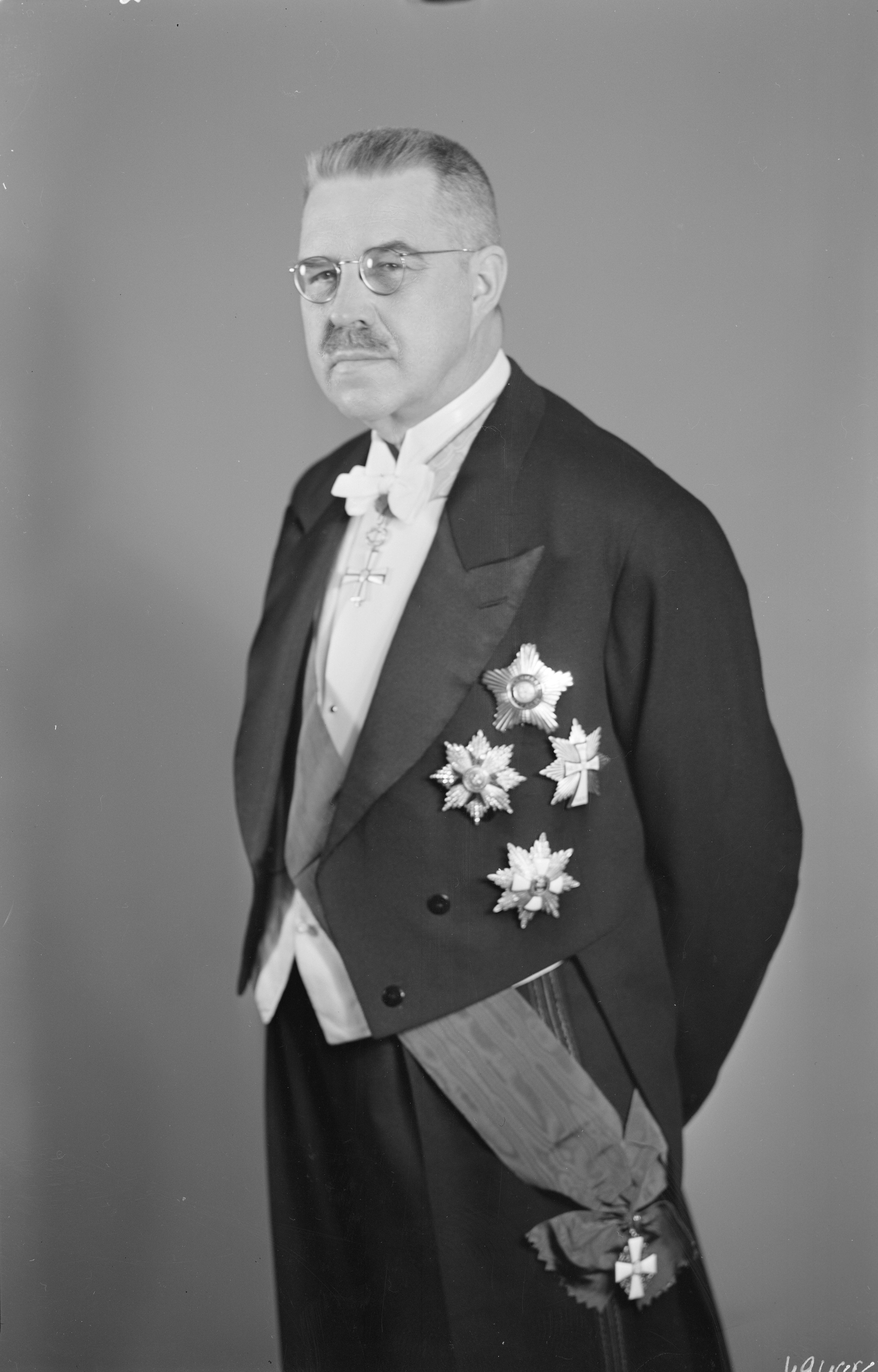 Photograph of the Finnish politician Rolf Witting (1879–1944).